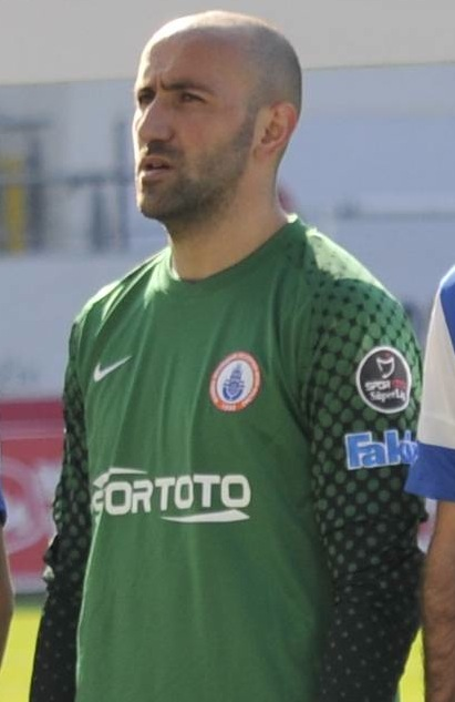 Behram / ibb-antalyaspor Photo:Murat Özgen